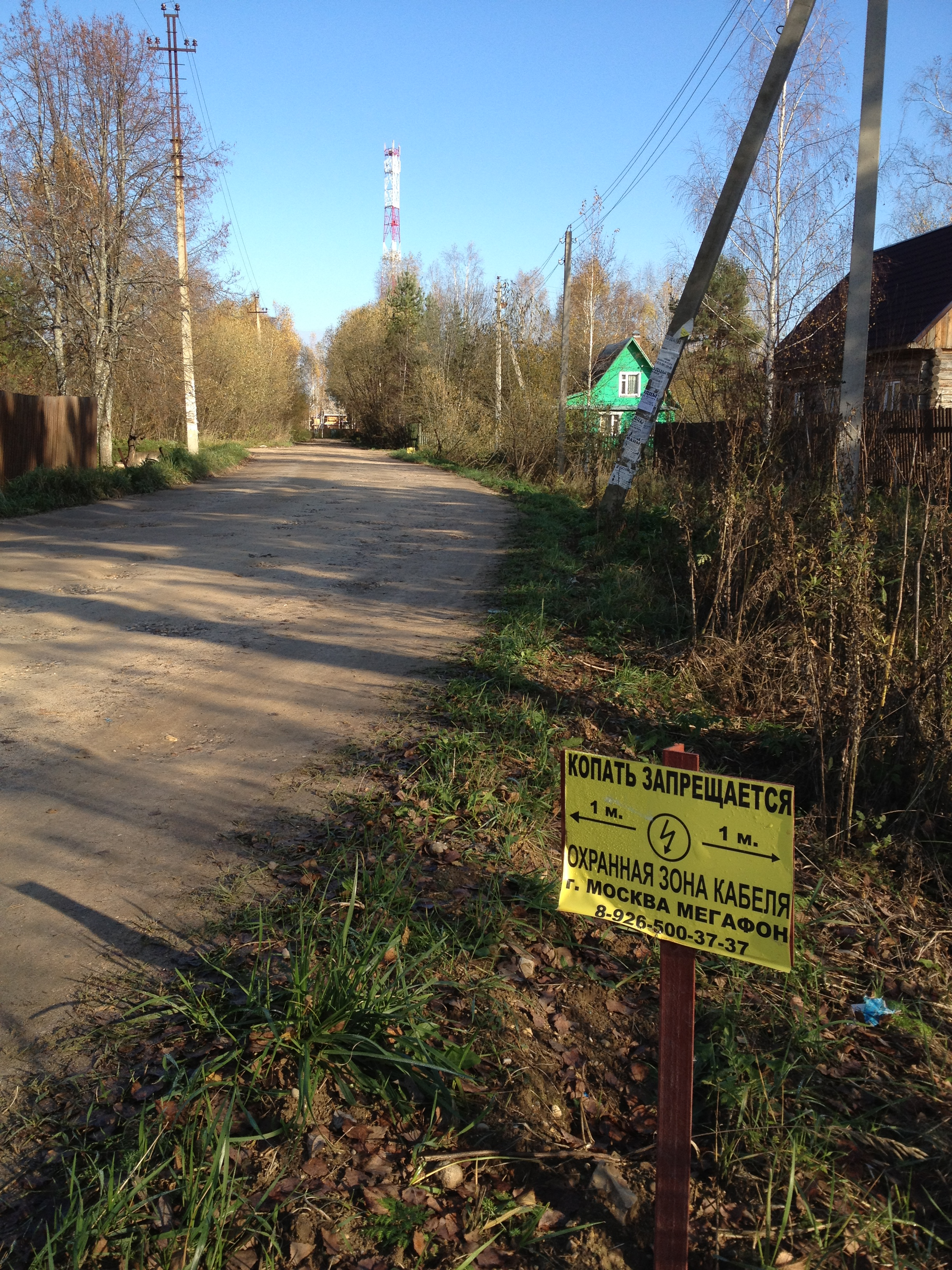 Privetino (Taldomsky district, Moscow oblast). MegaFon cellular basestation.